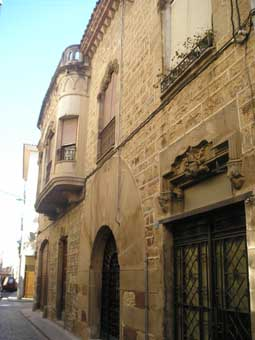 Façade of Cal Gallisà in Riudoms (Catalonia), where the Nebot brothers were born.